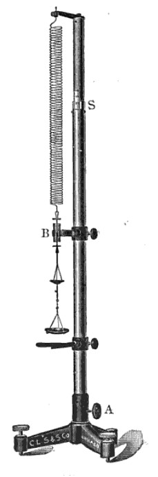 This is an old picture of a Jolly balance.